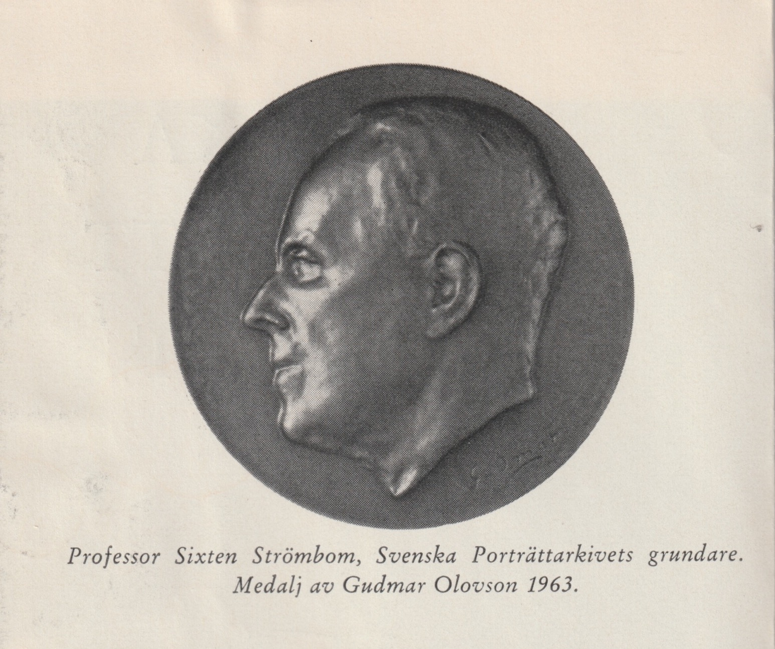 Picture of a brons medal made by Gudmar Olovson